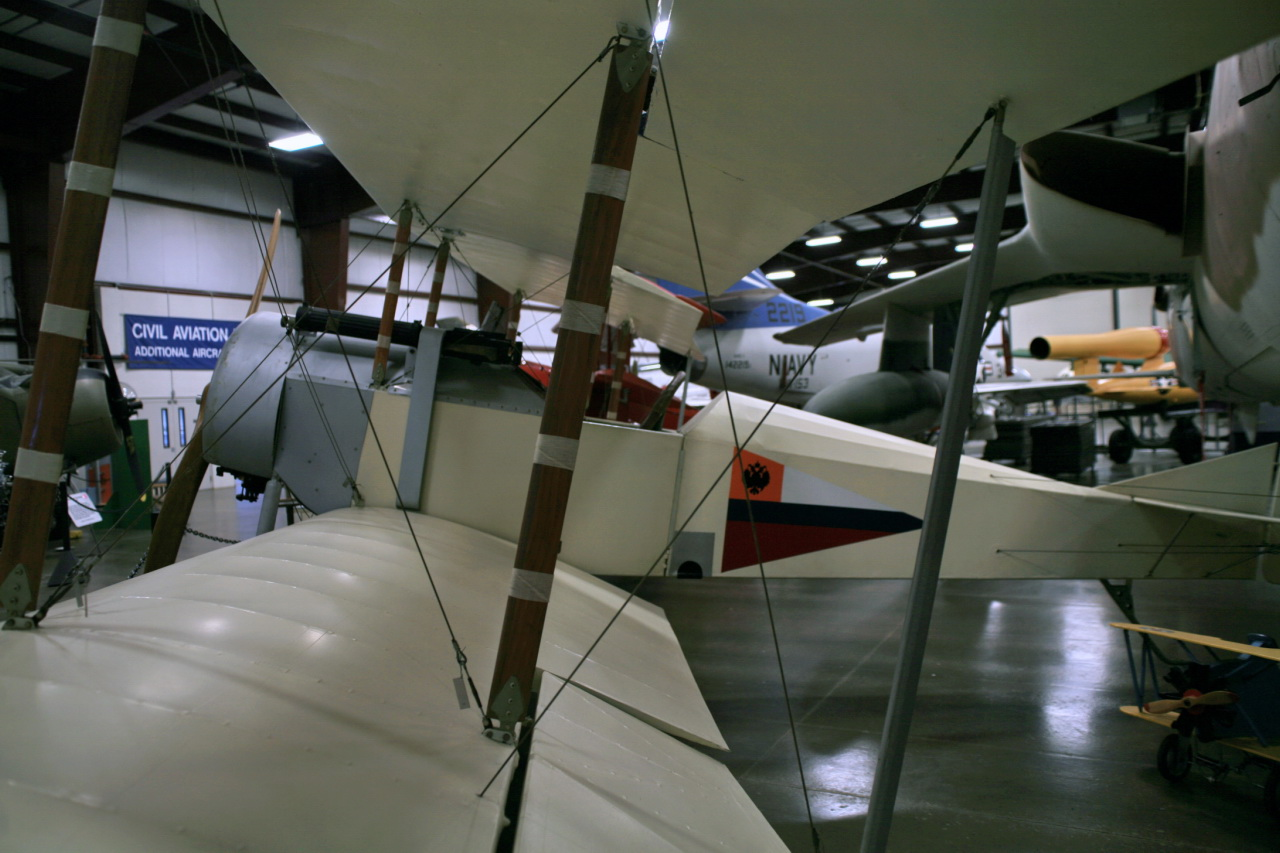 The S-16 was the first Sikorsky fighter with a machine gun synchronized to fire through the propeller without hitting the blades and was the first Russian fighter actually built in Russia. The 4-wheeled front landing gear was intended to deal with "soggy Russian fields" and the airplane could be equipped instead with a pair of skis for when those soggy fields became frozen during the harsh Russian winters.